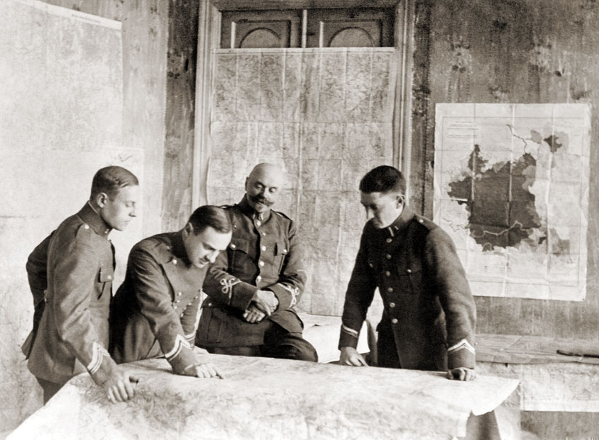 Gen. Daniel Konarzewski with officers of the Staff of 14th Infantry Division of Polish Army. Polish-Soviet war, 1920.